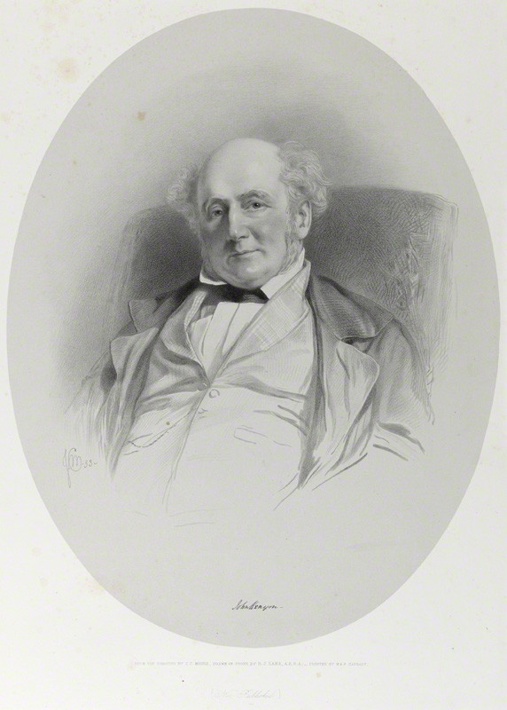 Portrait of John Kenyon (1784–1856), English philanthropist.